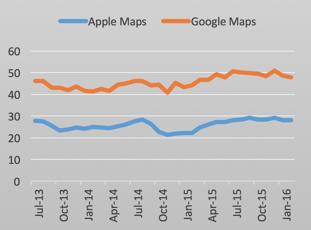 The market share of Apple Maps and Google Maps on smartphones in the United States according to comScore. (English version of File:Marktaandeel Apple Maps en Google Maps.png)